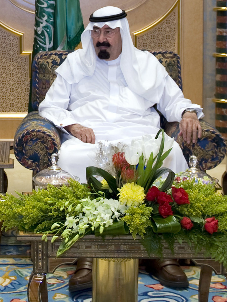 Secretary of Defense Robert M. Gates meets with the King and Prime Minister Abdullah Abd al-Aziz Al Saud Al Saud at the Jannadriyya Farm in Saudi Arabia on March 10, 2010.